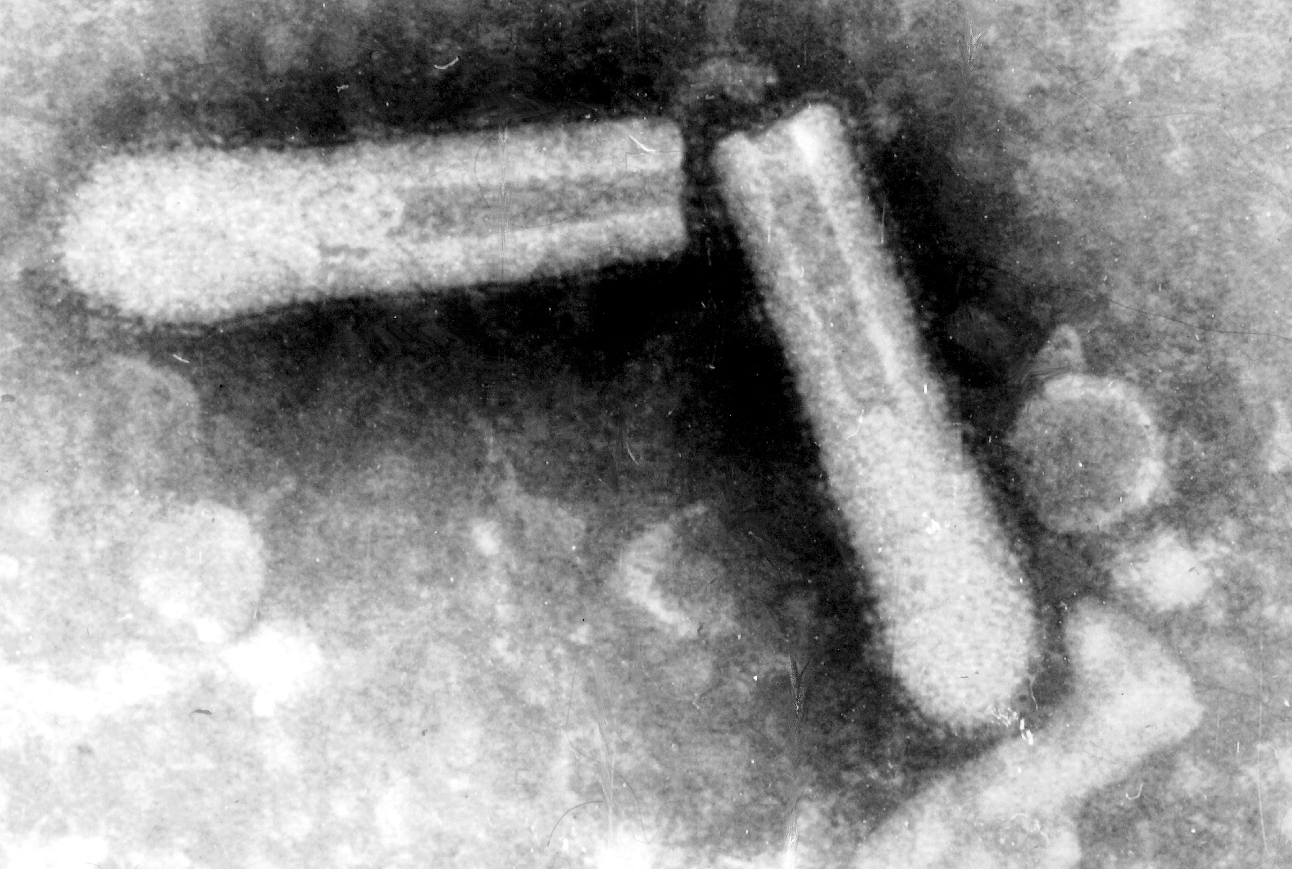 Transmission electron micrograph of two plant rhabdovirus particles